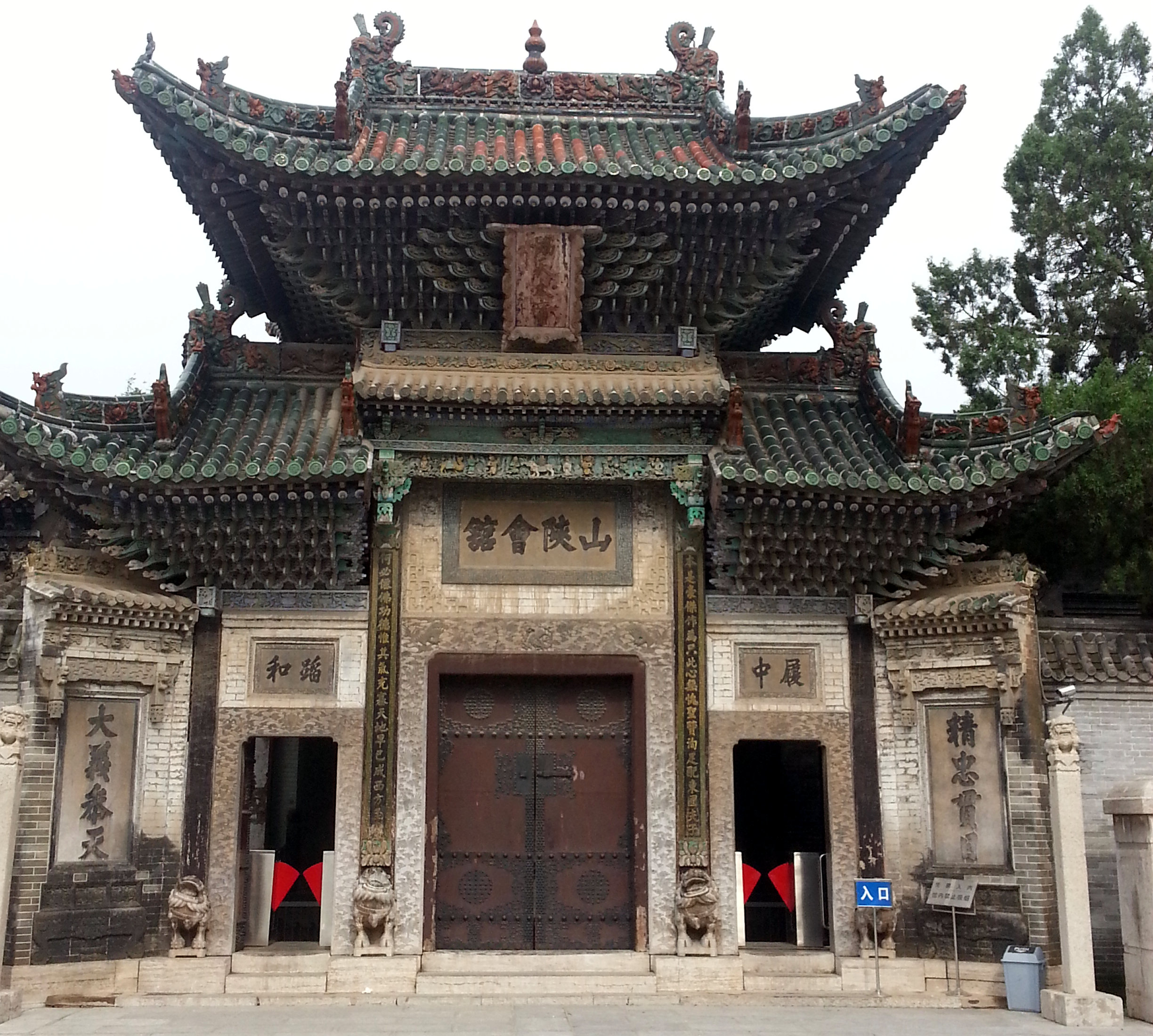 Photograph of the front side of the Shanshan Hall in Liaocheng, Shandong, China.